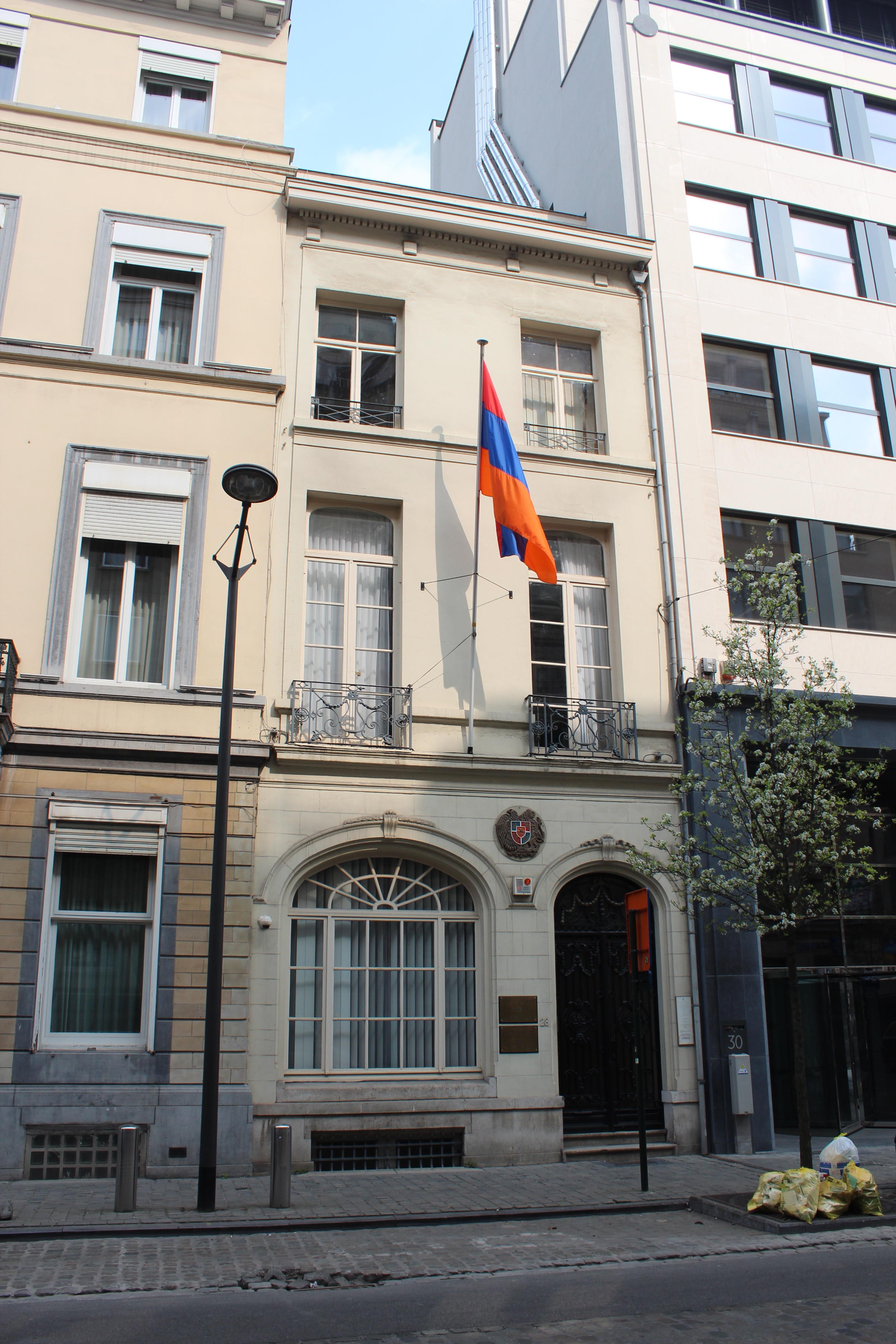 rue Montoyer Straat 26-28 Brussels 2012-04